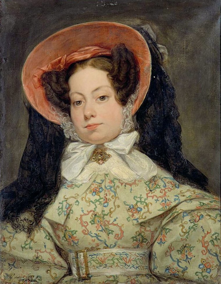 Portrait of a Princess of Braganza, 1832, by Gillot Saint-Èvre. It is probably a depiction of Infanta Ana de Jesus Maria of Braganza, Marchioness of Loulé.